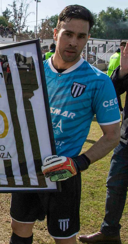 Matías Alasia in 2015 with the shirt of Gimnasia of Mendoza.